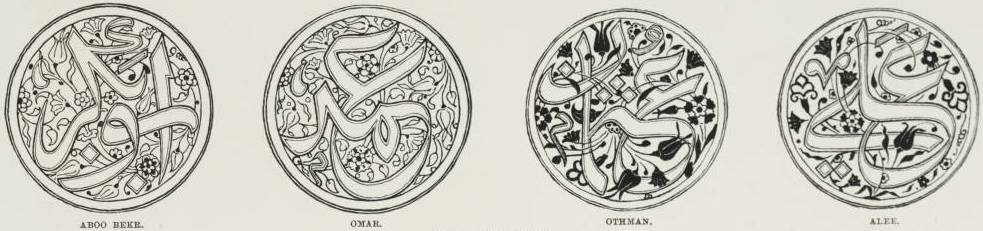 Four different Egyptian coins.